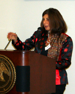 United States District Judge Amy Totenberg speaks at the InGIRLS Leadership Symposium.